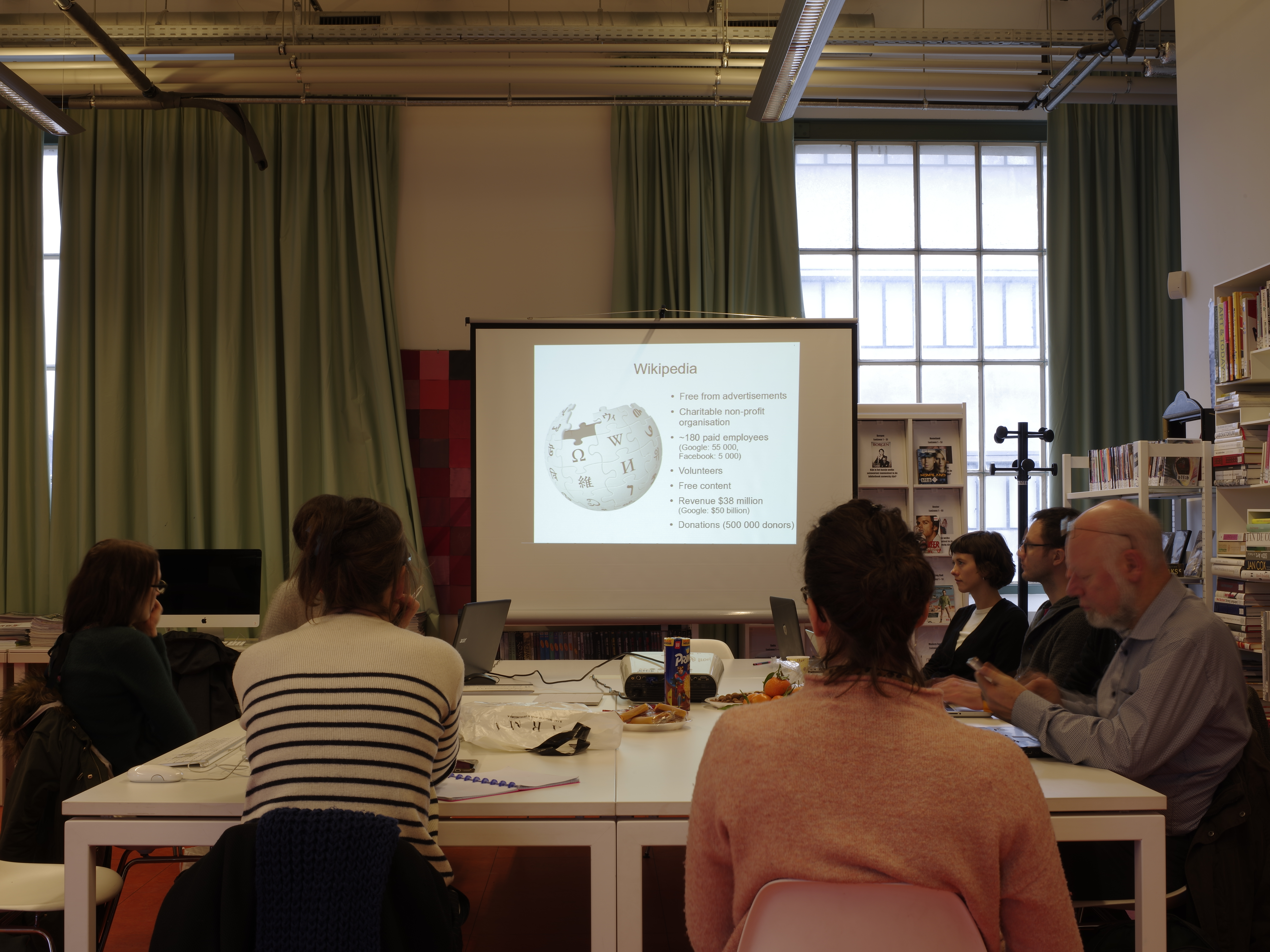 Wikipedia edit-a-thon on December 9 2017 at BLI:B, public library Forest, at avenue Van Volxem 364 in 1190 Brussels (Forest).